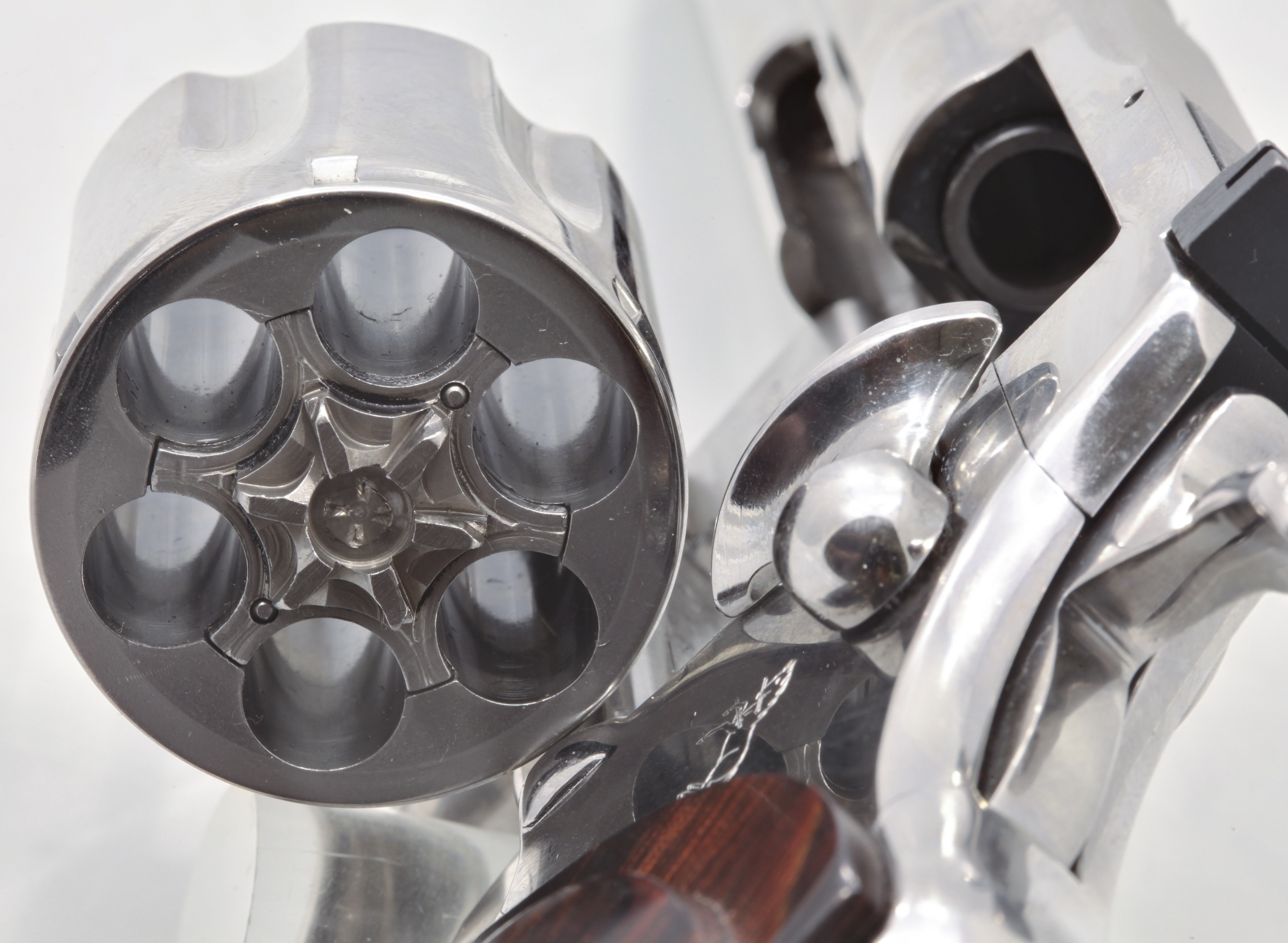 Cylinder of a Colt Python Collection Paul Regnier, Lausanne, Switzerland